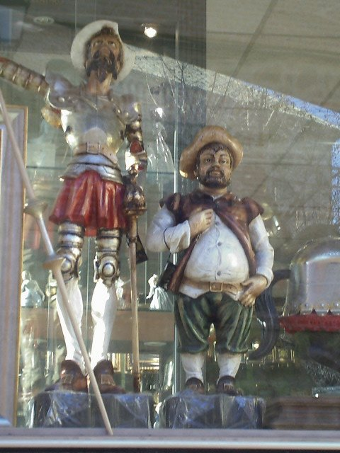 Quijote and Sancho